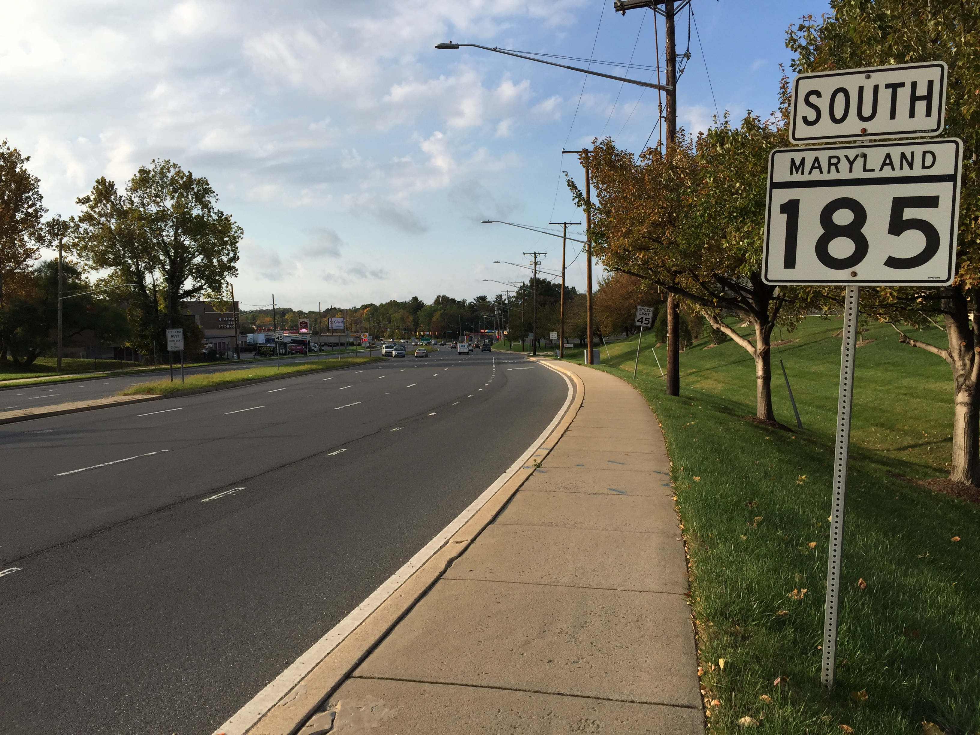 View south along Maryland State Route 185 (Connecticut Avenue) at Maryland State Route 97 (Georgia Avenue) in Aspen Hill, Montgomery County, Maryland